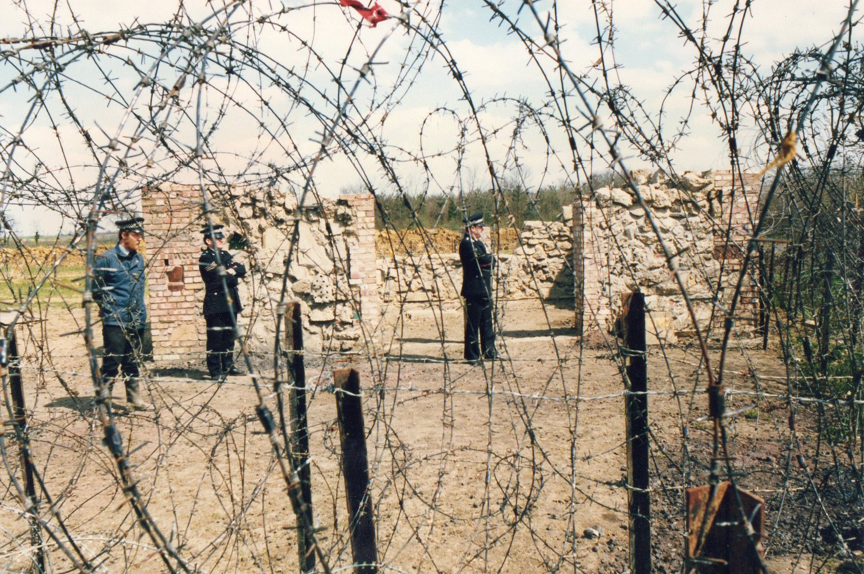 RAF Molesworth, 1985(?). Police in front of ruins of Peace Chapel